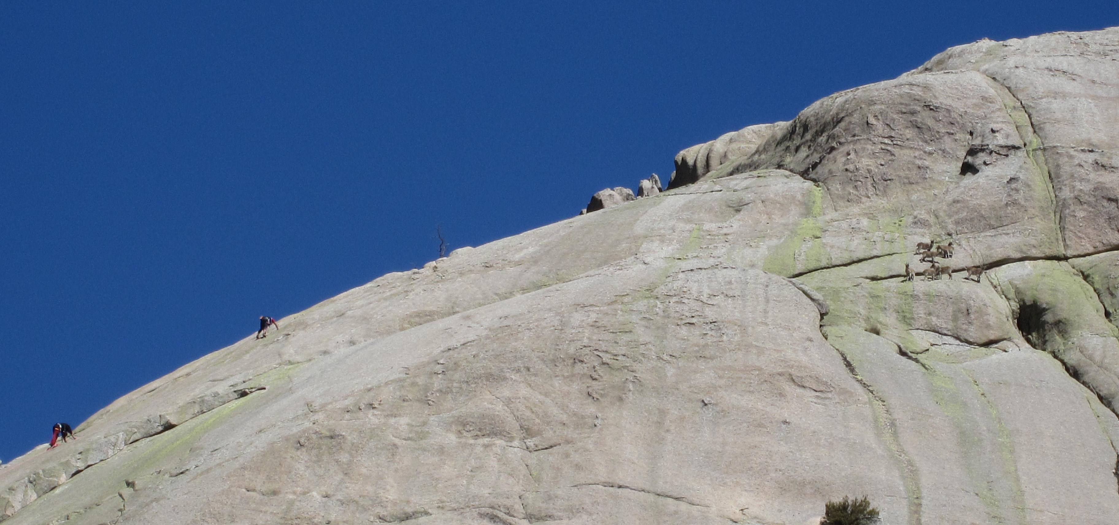 Climbers and goats in the South face of El Yelmo, La Pedriza (Guadarrama mountain range, central Spain).